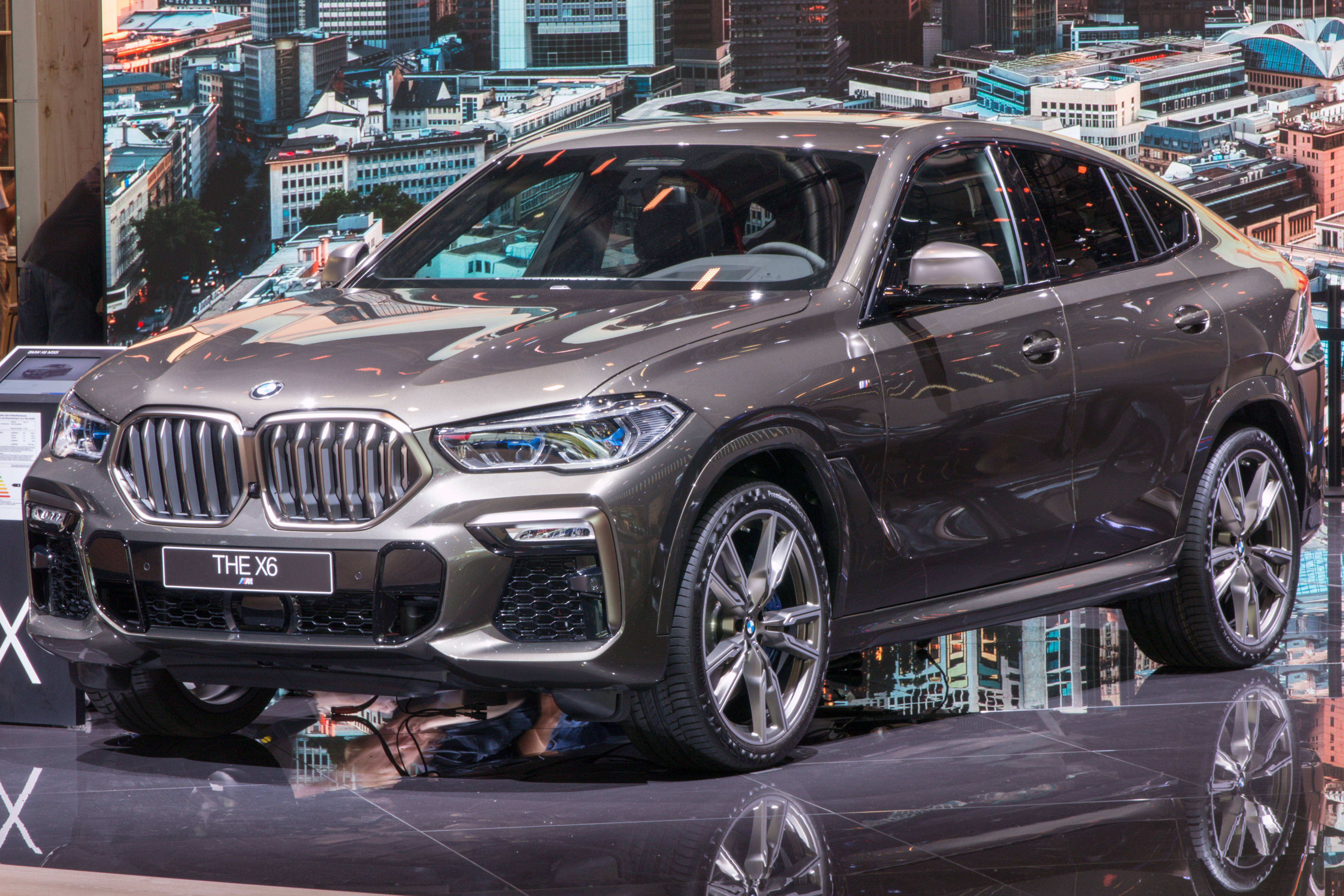 BMW G06